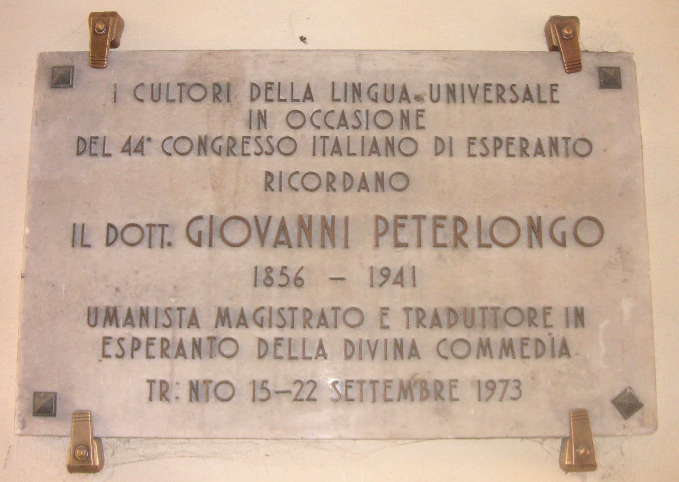 Plaque dedicated to Giovanni Peterlongo in Trento